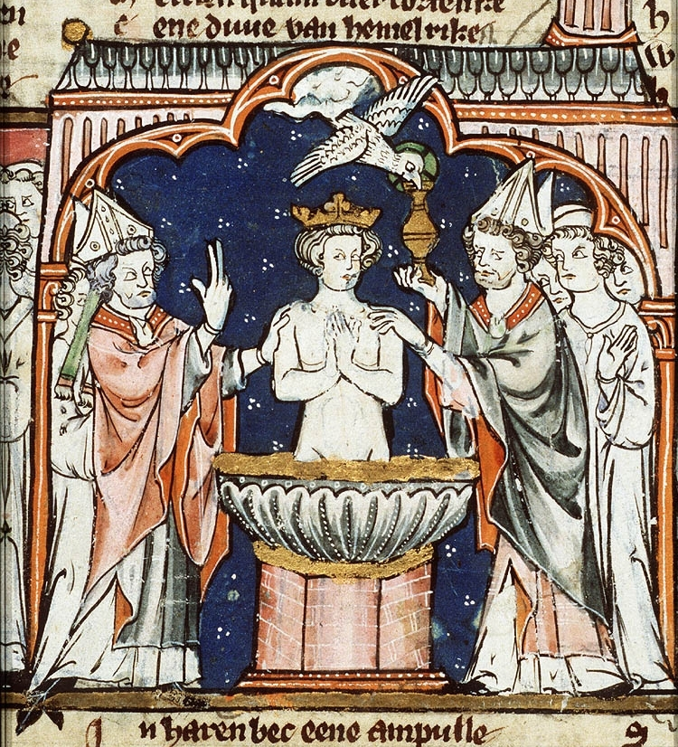 Clovis